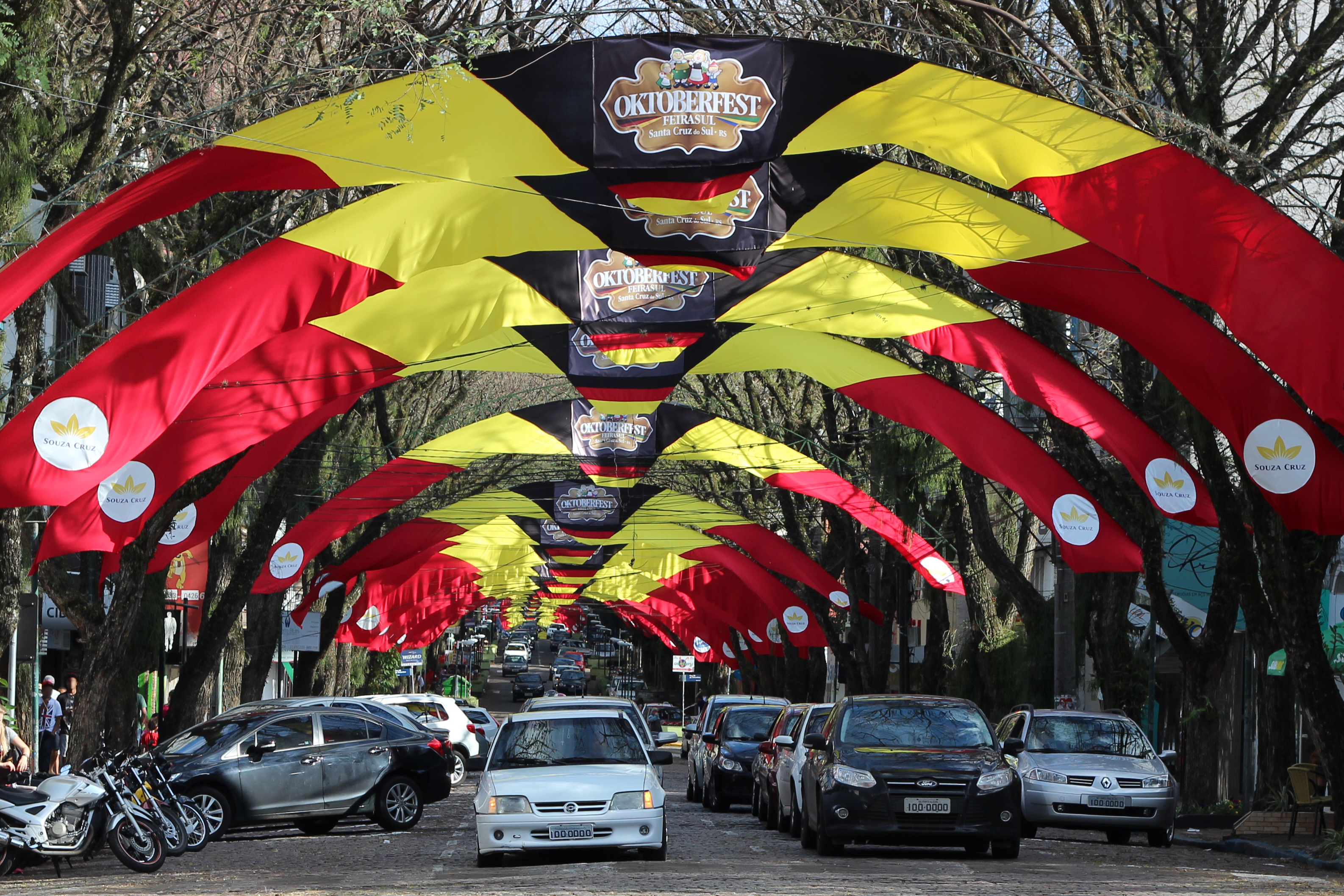 Marechal Floriano Street, Santa Cruz do Sul, Brazil